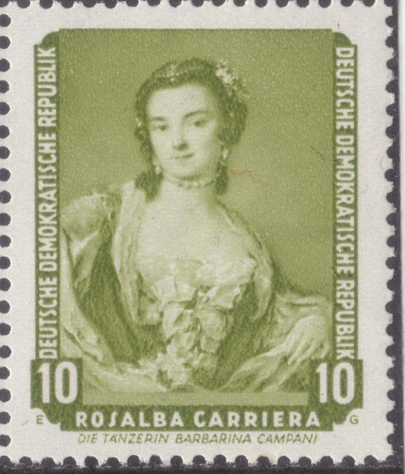 Series: Restitution of German paintings by the USSR. Featuring 18th century portrait of Barbara Campanini 'La Barberina' (1721-1799), by unknown artist.